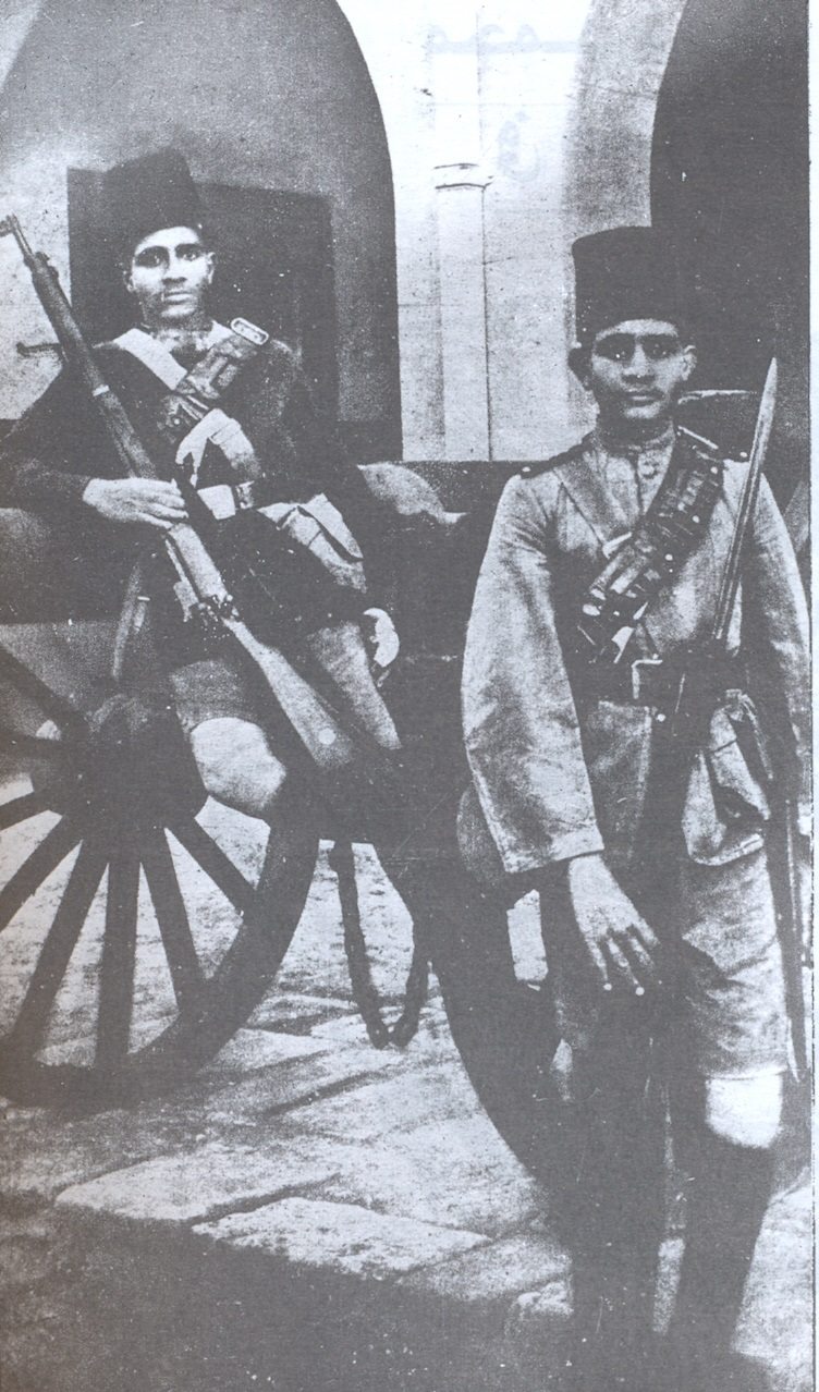 Naguib with his brother